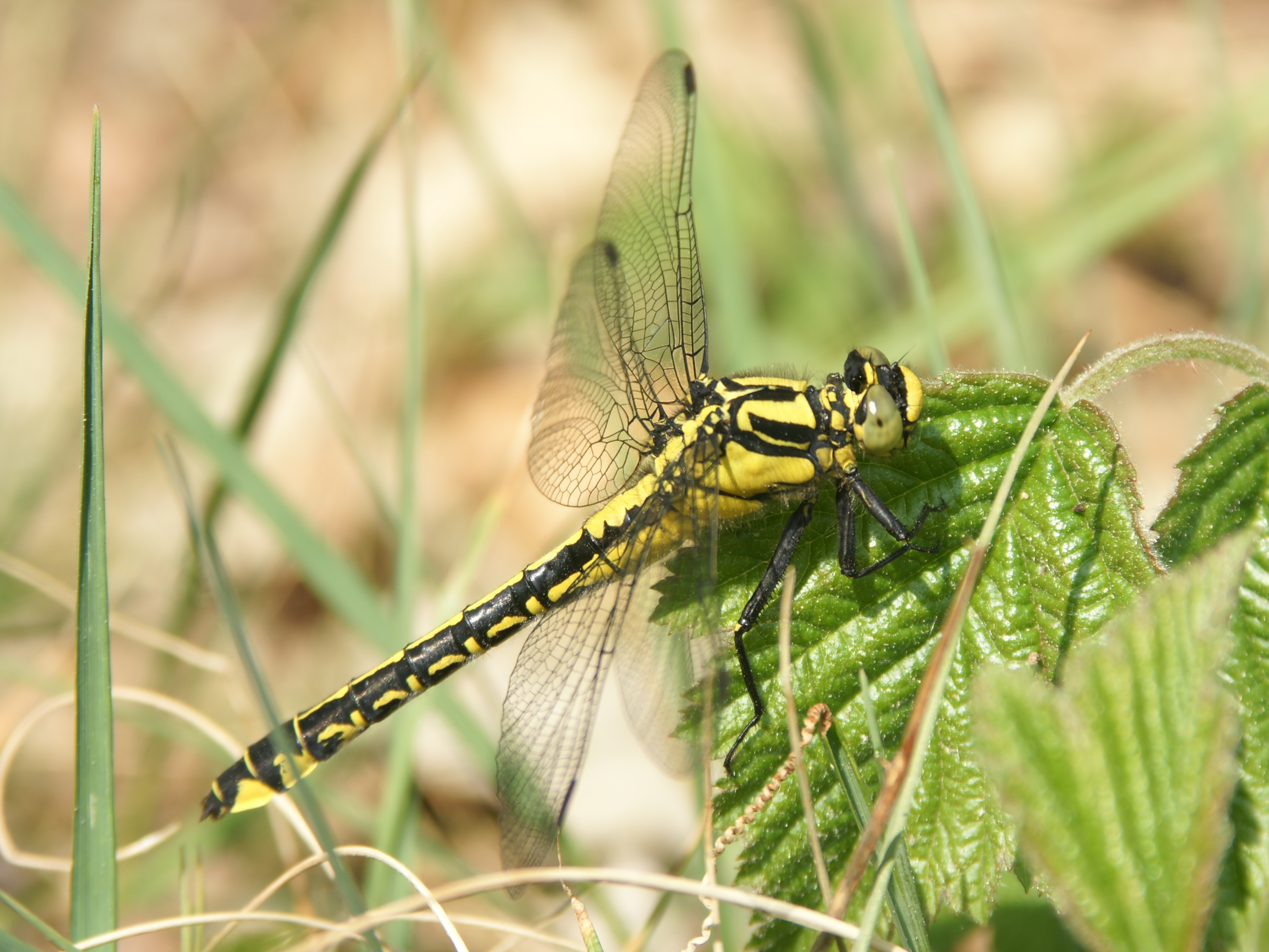 a female Dragon fly (Gomphus vulgatissimus) identyfied by Fice